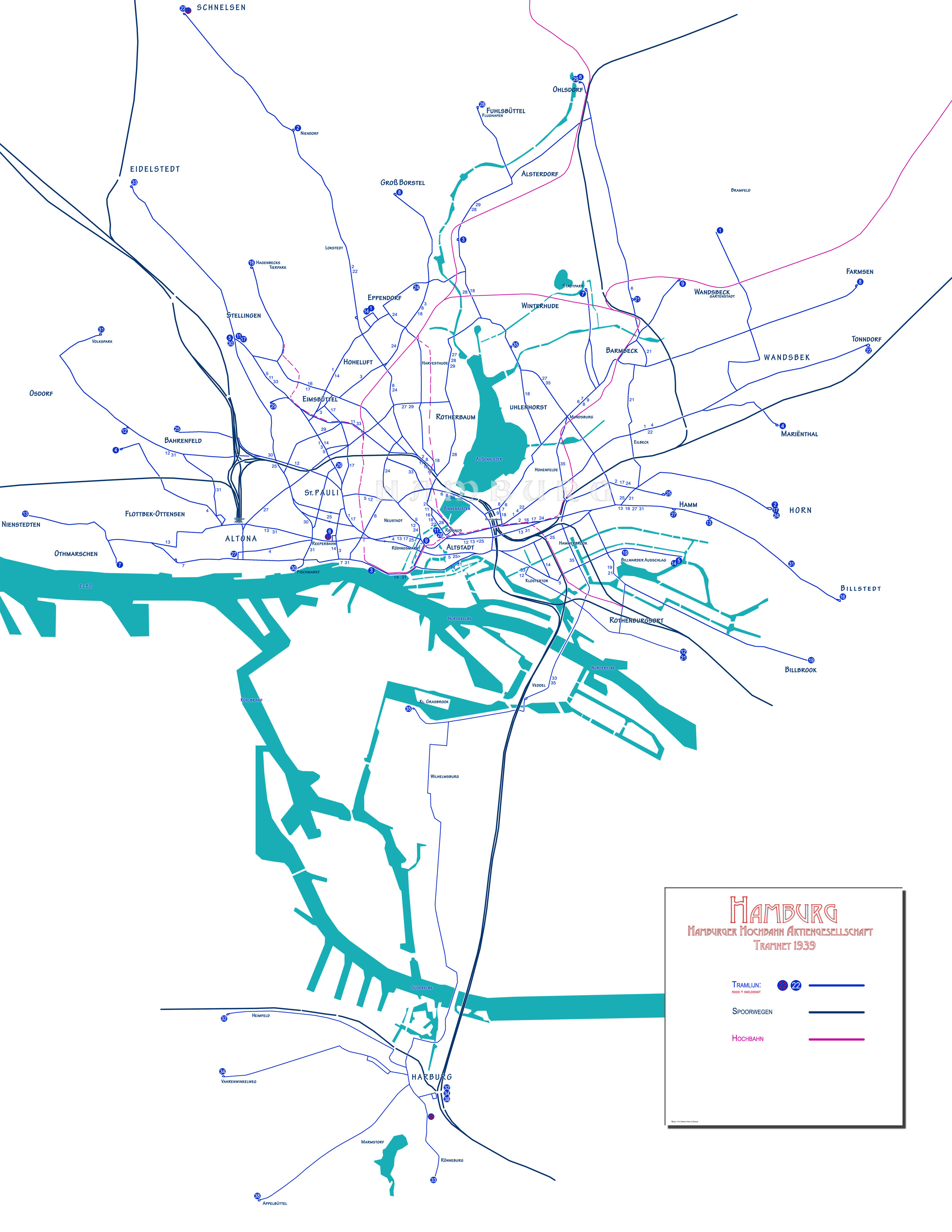 Tramway network Hamburg, Germany, 1939